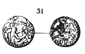 Coin of Henry I of Brabant. Quoted from the original source: "Buste d'évêque mitré, tourné à gauche, tenant une crosse: I-Oh'S. Rev. Cavalier galopant à droite, le casque en tête et l'épée haute. A l'exergue: h'DUX." (p. 49).